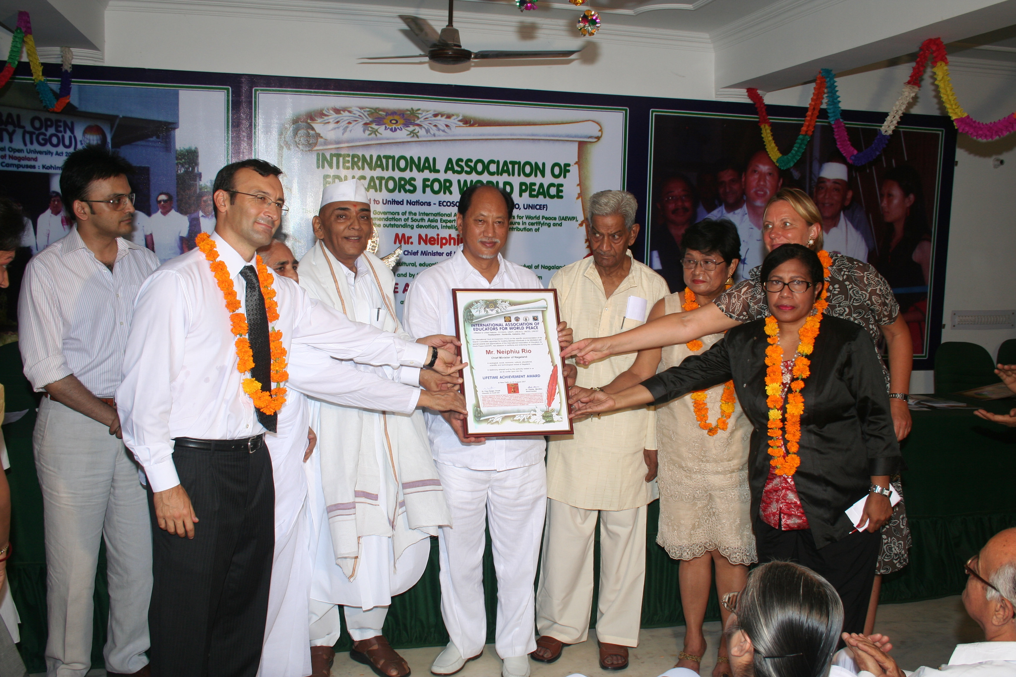 Charity